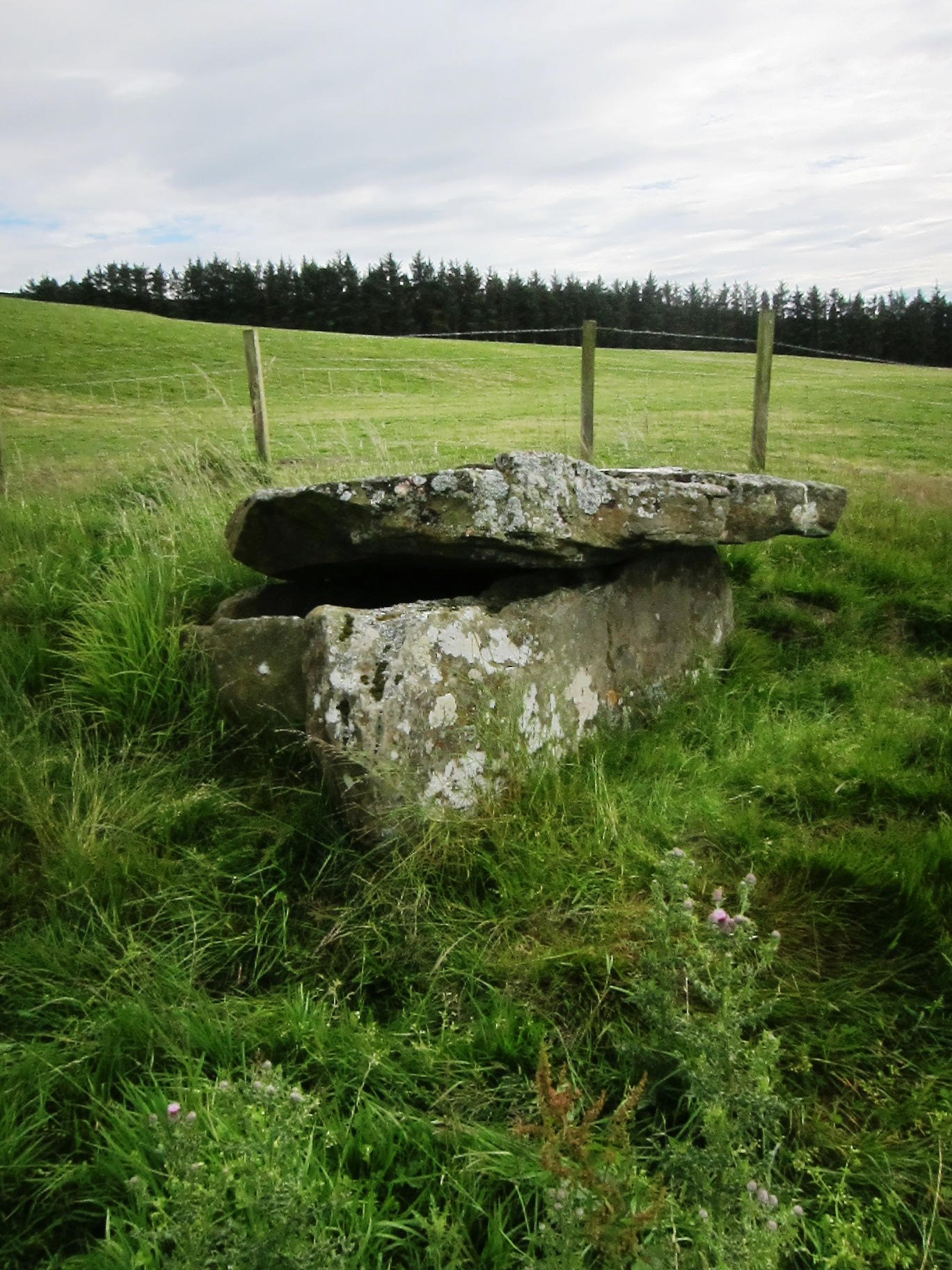 Dolmen at Ballochroy approx 100 metres from the standing stones